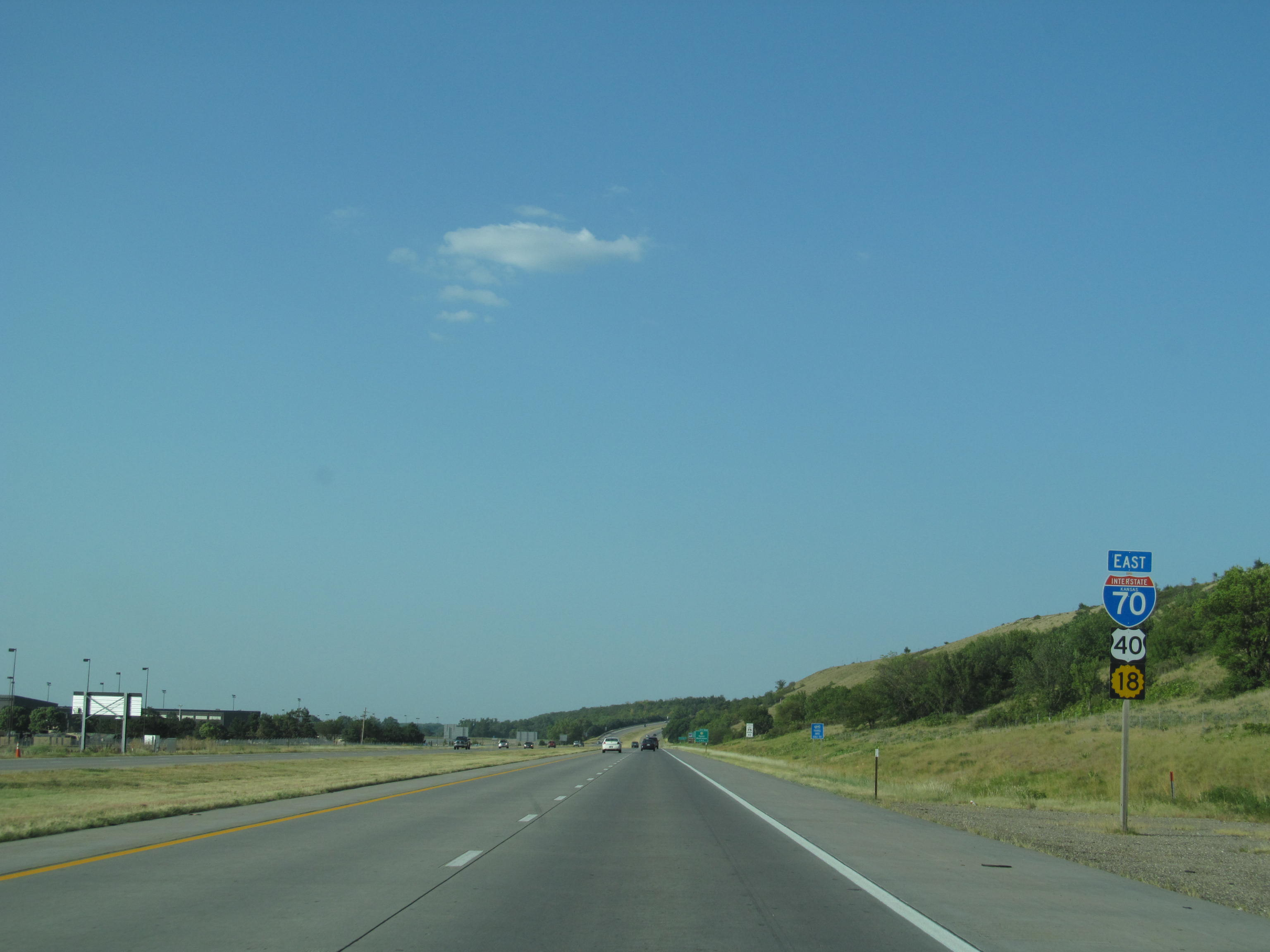 K-18 overlap with I-70 and US-40